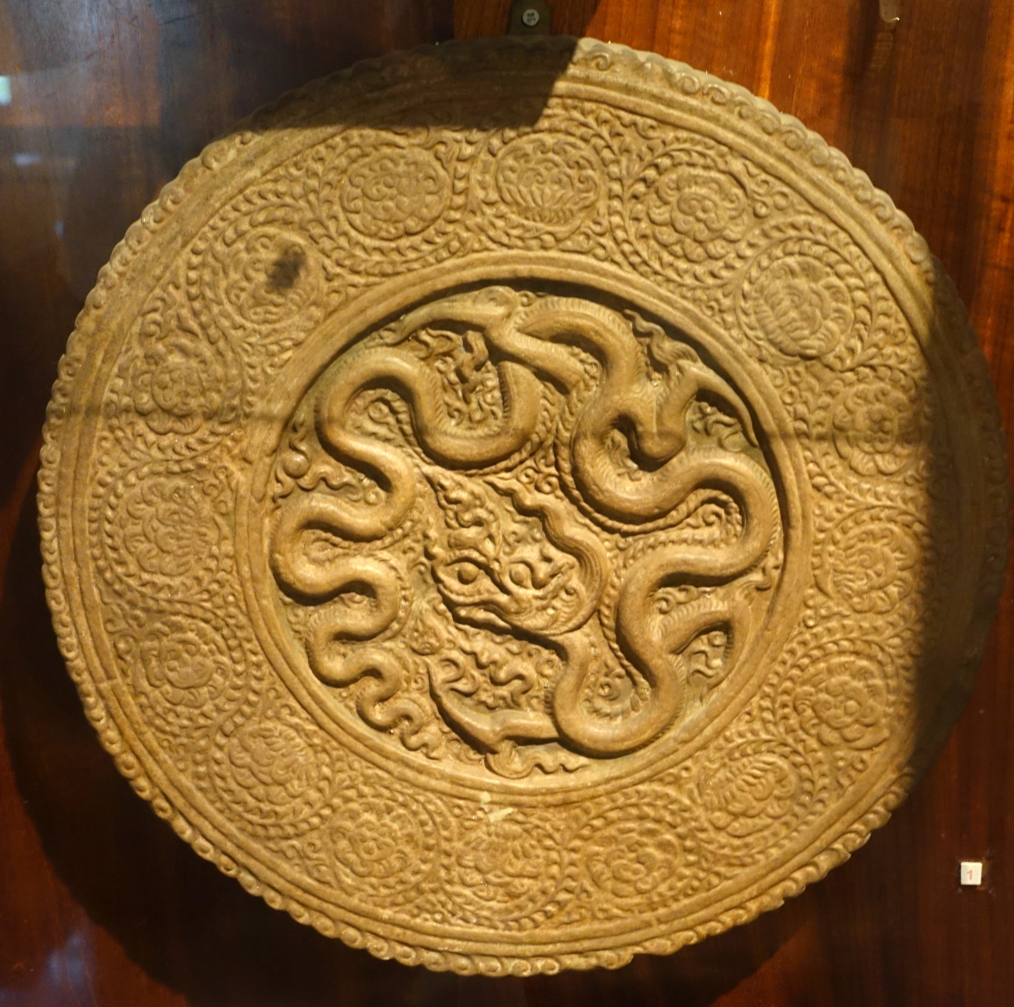 Exhibit in the Vietnam National Museum of Fine Arts - Hanoi, Vietnam. This artwork is old enough so that it is in the public domain.